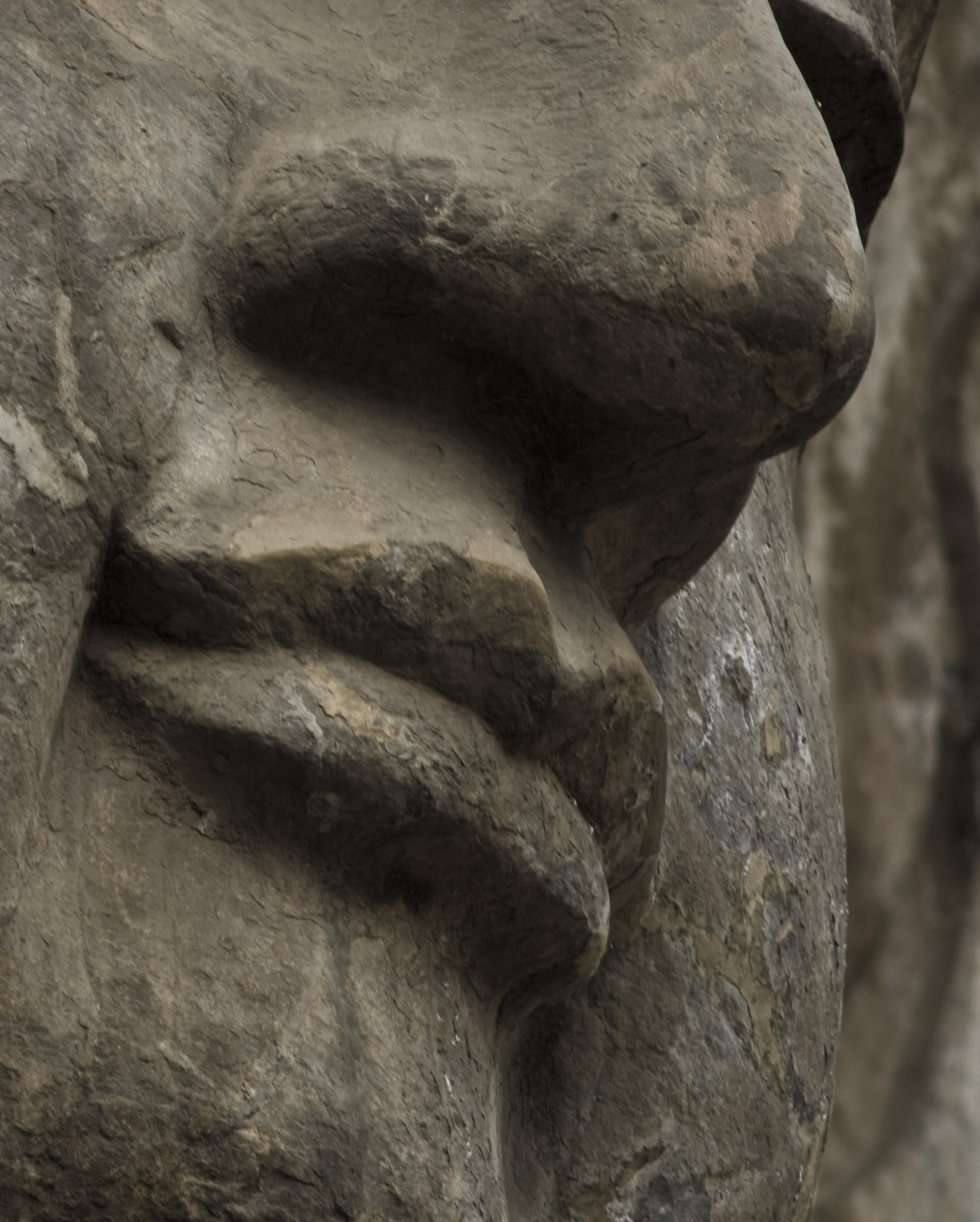 Longmen Caves, China